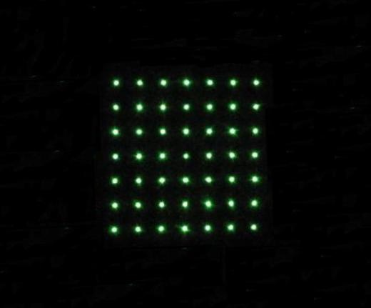 Light intensity distribution after propagation through diffractive beam splitter